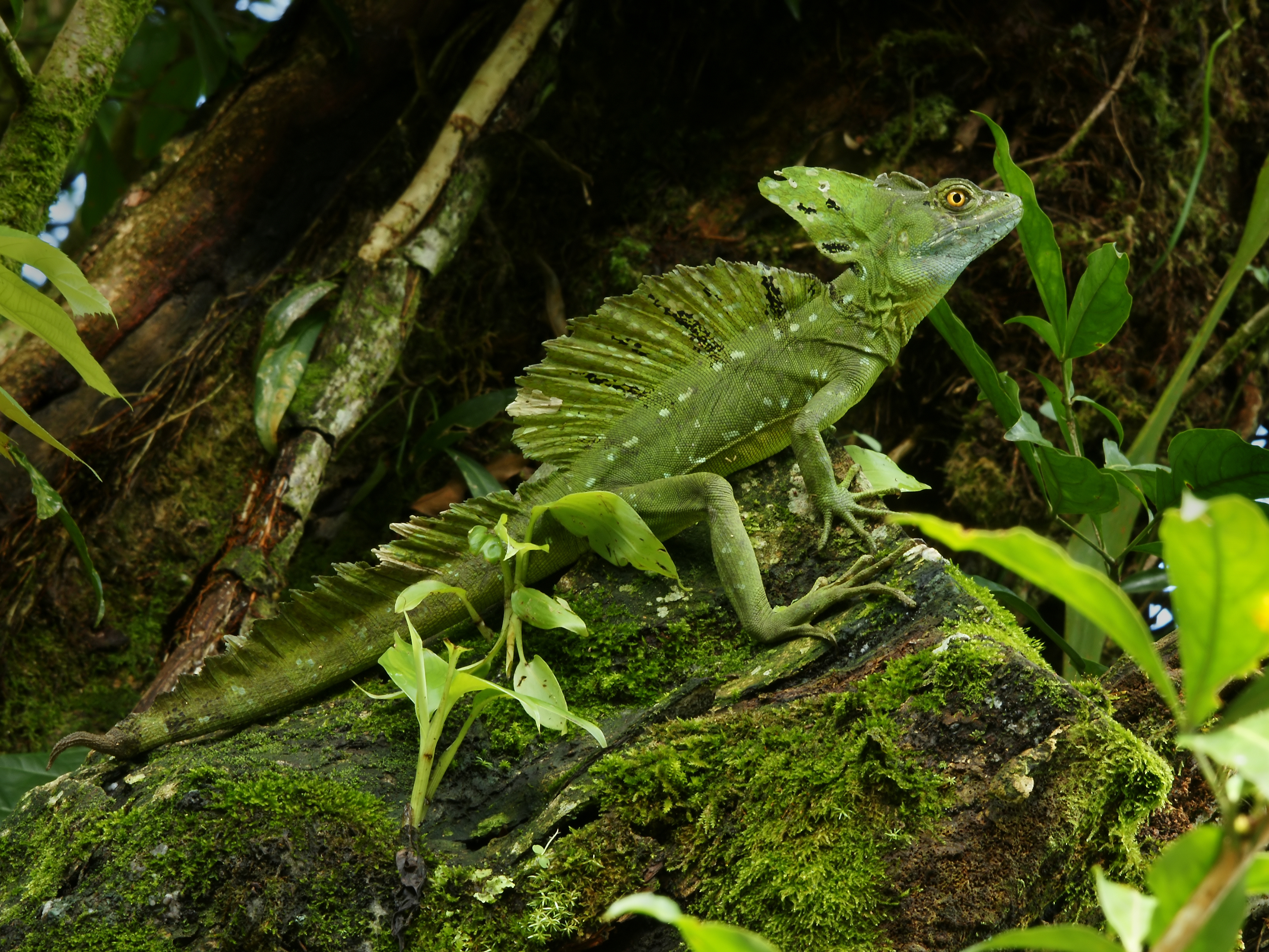 Plumed basilisk near Las Horquetas, Costa Rica